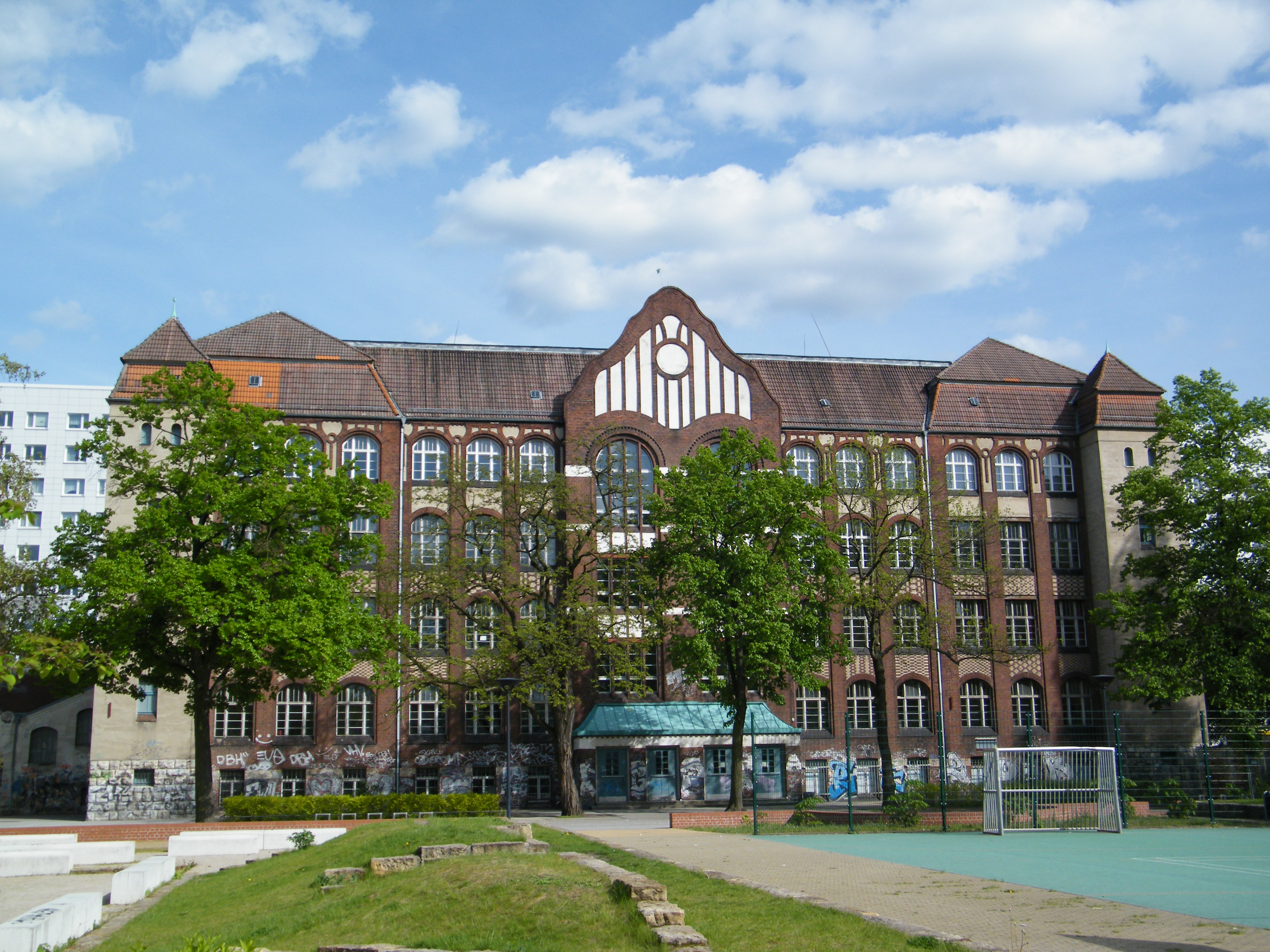 Berlin-Lichtenberg, Frankfurter Allee Süd, Schulze-Boysen-Str. Mildred-Harnack-School